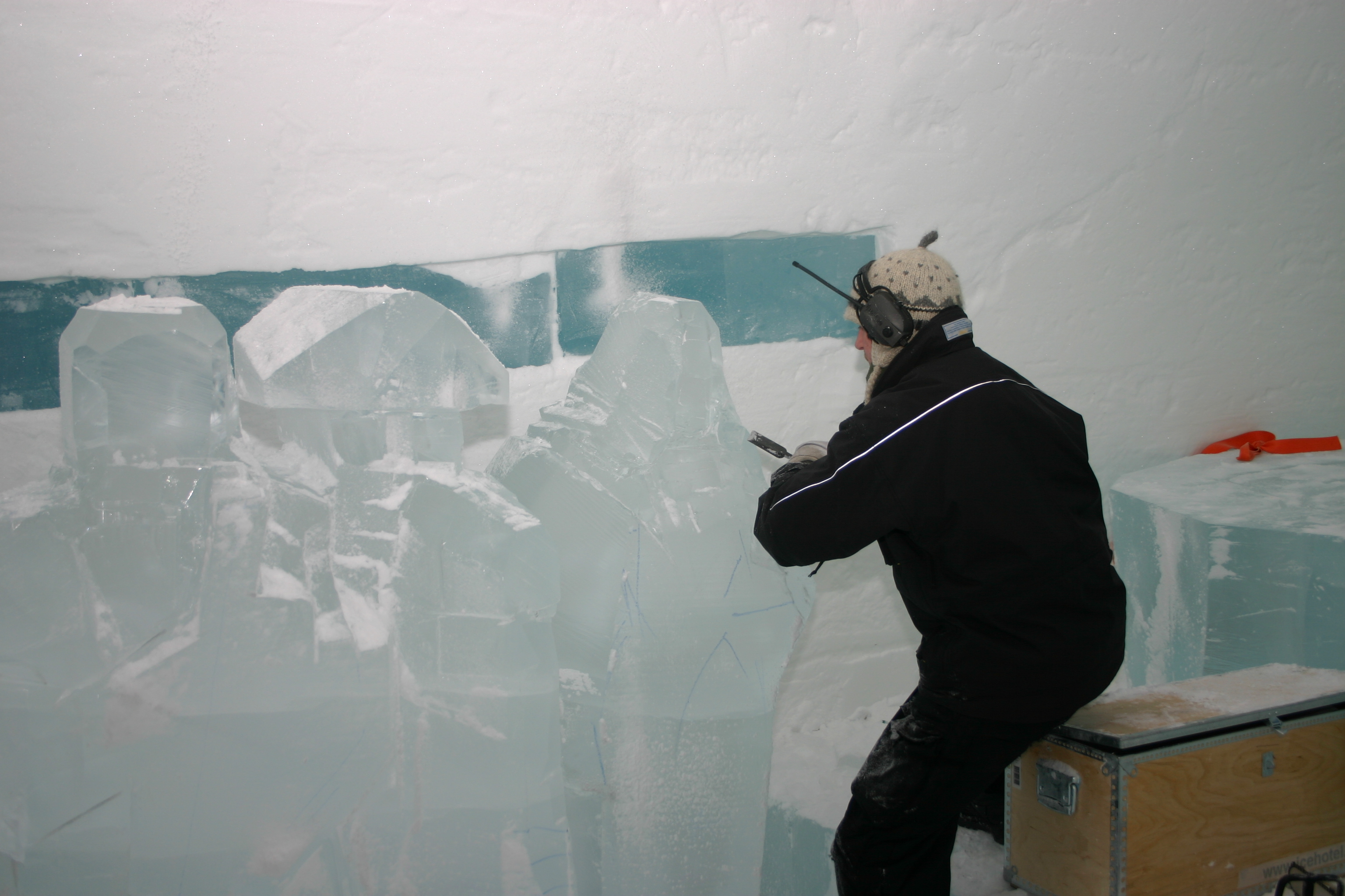 The Ice Hotel in Sweden. The Ice Hotel near the village of Jukkasjärvi, Kiruna, Sweden